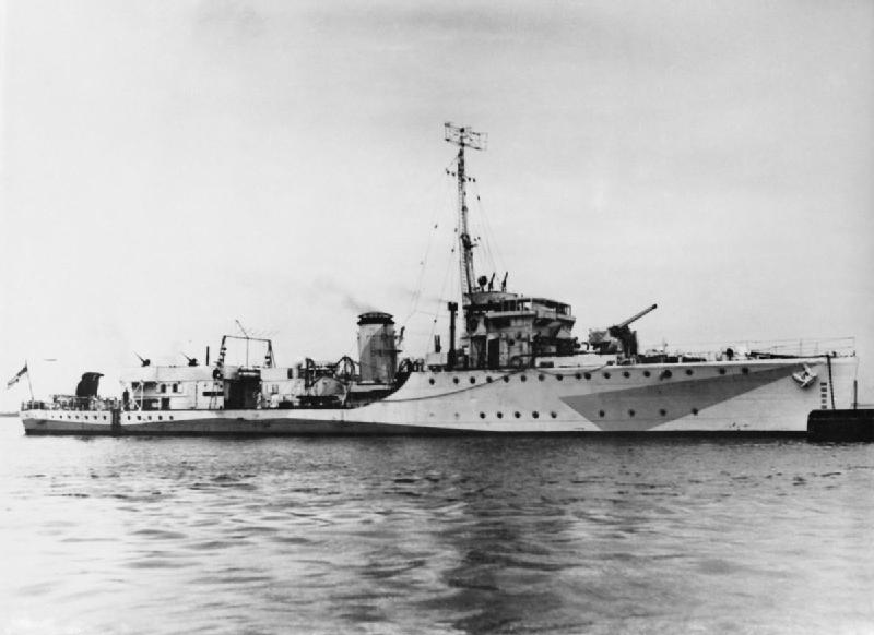 British Kingfisher class sloop HMS Shearwater (L39) moored.